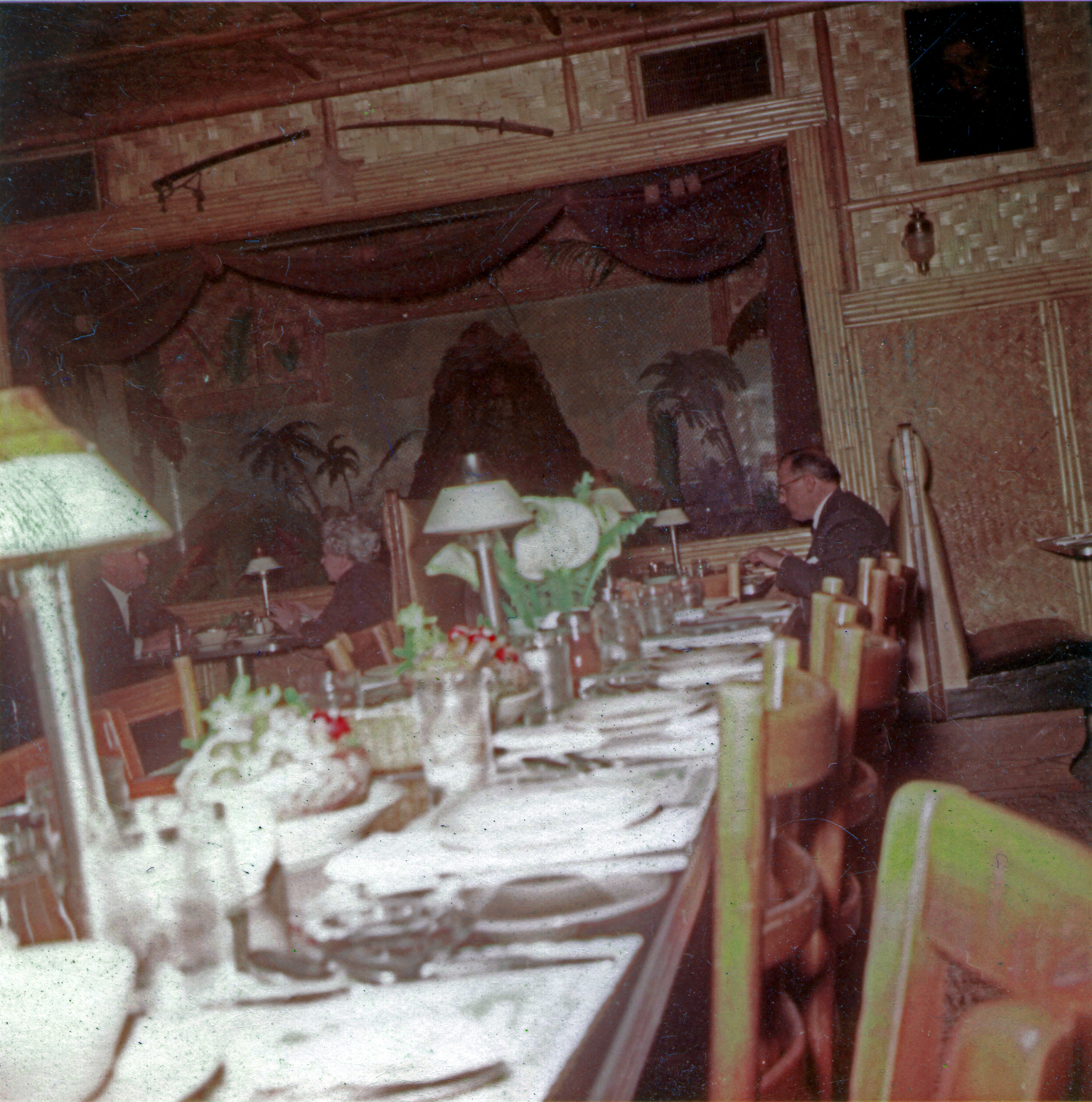 Owner Ed Hill eating dinner in the refurbished interior of the Sacramento Zombie Hut as designed by Leonard Starks in 1954